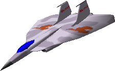 fighter GL-117 PHOENIX from the game gl-117 (gl-117 screenshot retouched with gimp)